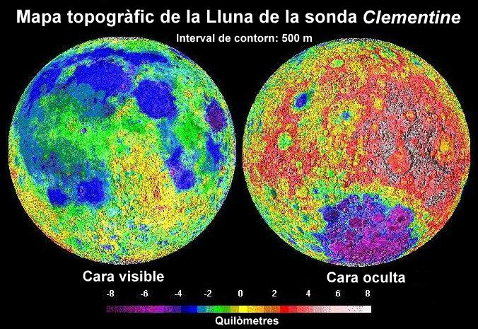 Topographic Map of Moon Clementine probe